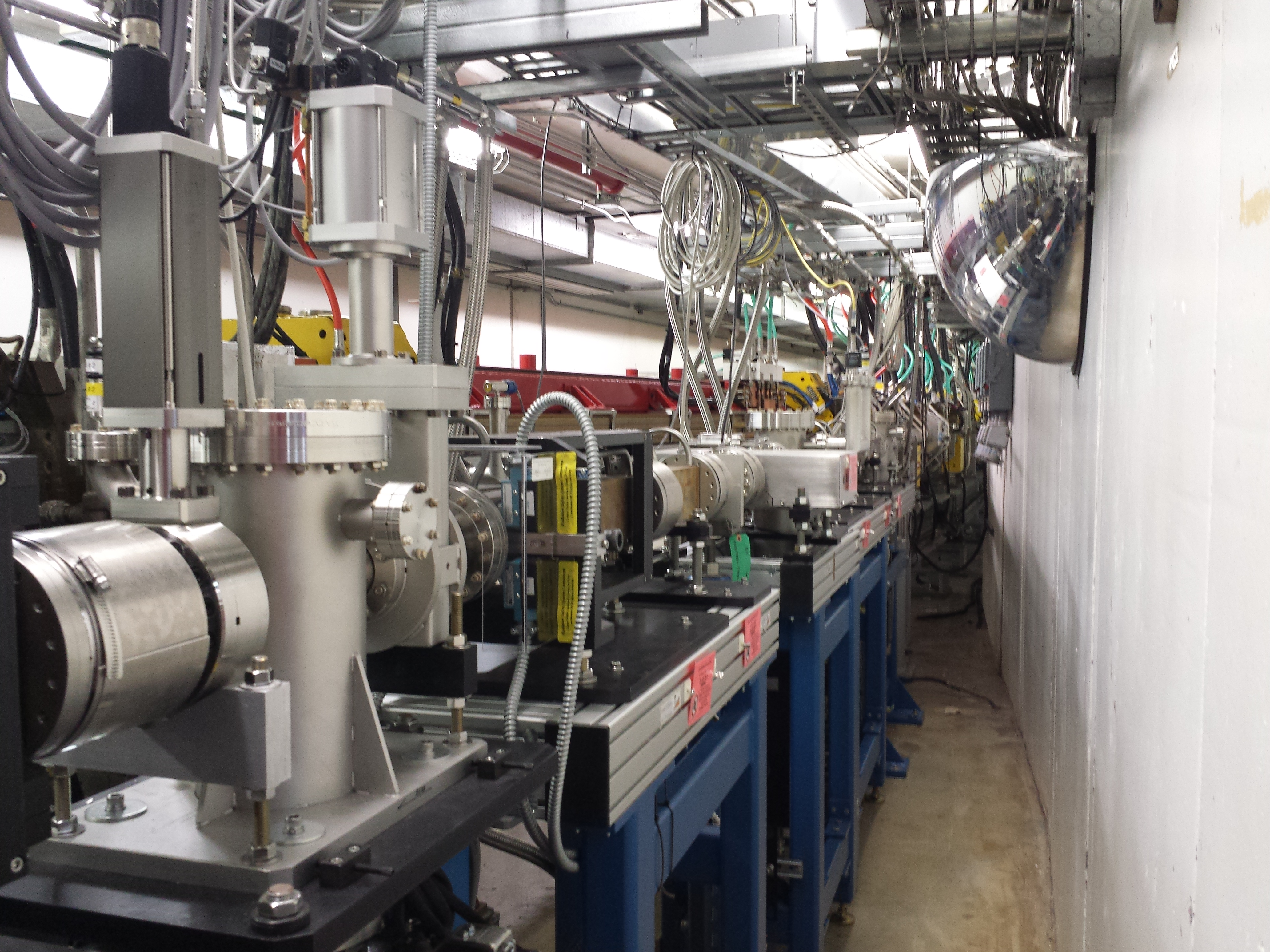 A picture of inside the synchrotron at the Advanced Photon Source, part of Argonne National Laboratory.